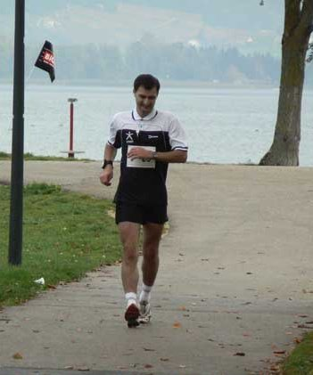 Cypriot athlete John Constandinou nearing the end of the Swiss National 50km Racewalk Championships 2006 in Yverdon-les-Bains and setting a new Cyprus national record for the 50km walk.